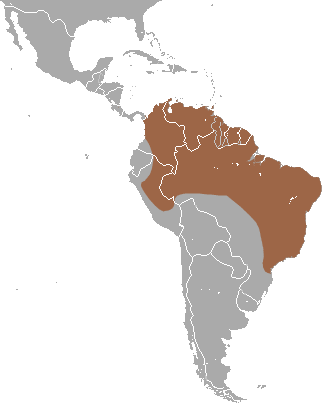 Thumbless Bat (Furipterus horrens) range